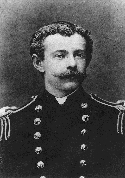 Possibly photographed at Nagasaki, Japan, 1884. He was Naval Attache to the Kingdom of Korea in 1884-1887. This image was used as the frontispiece of Harold J. Noble's 1931 Ph.D. dissertation "Korea and Her Relations with the United States", in the library of the University of California at Berkeley.